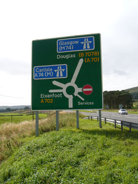 A702 / M74 and A74(M) Road sign. This very complicated road sign is just as you approach the Motorway junction on the A702 coming from Biggar. The complication is why does the same stretch of Motorway from Glasgow to Carlisle have two separate numbers. Well it is this junction where the A74(M) becomes the M74 when travelling north or the other way if travelling south...?